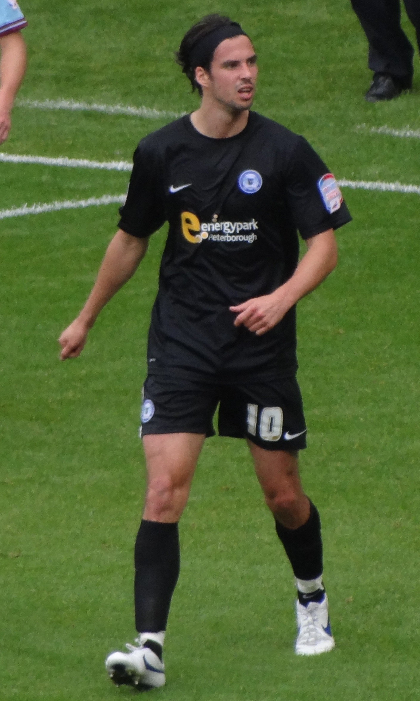 George Boyd from West Ham vs Peterborough